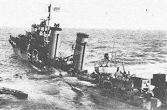 HMS Brazen, British destroyer sinking after air attack